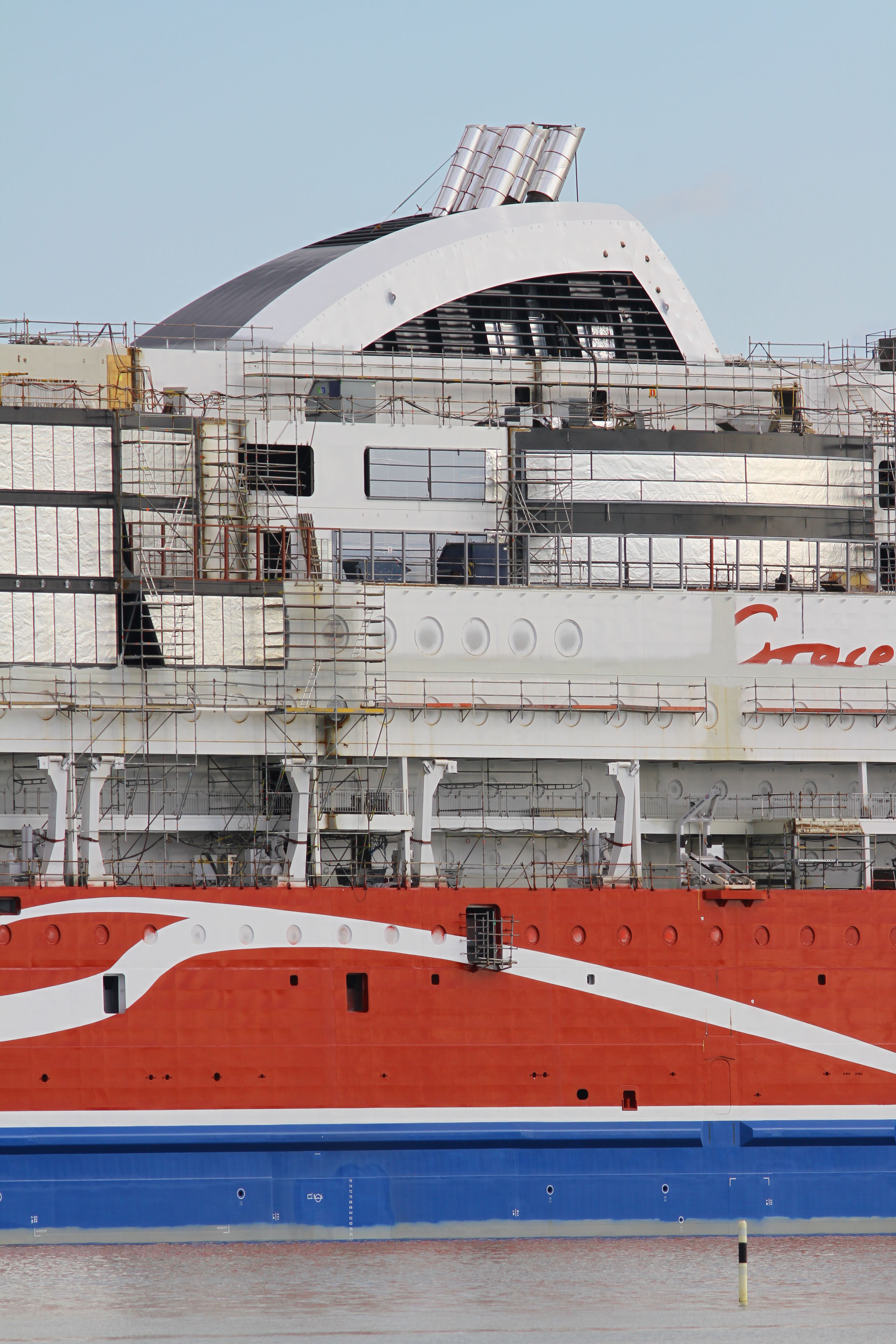 MS Viking Grace under construction at STX Europe, Turku, Finland.